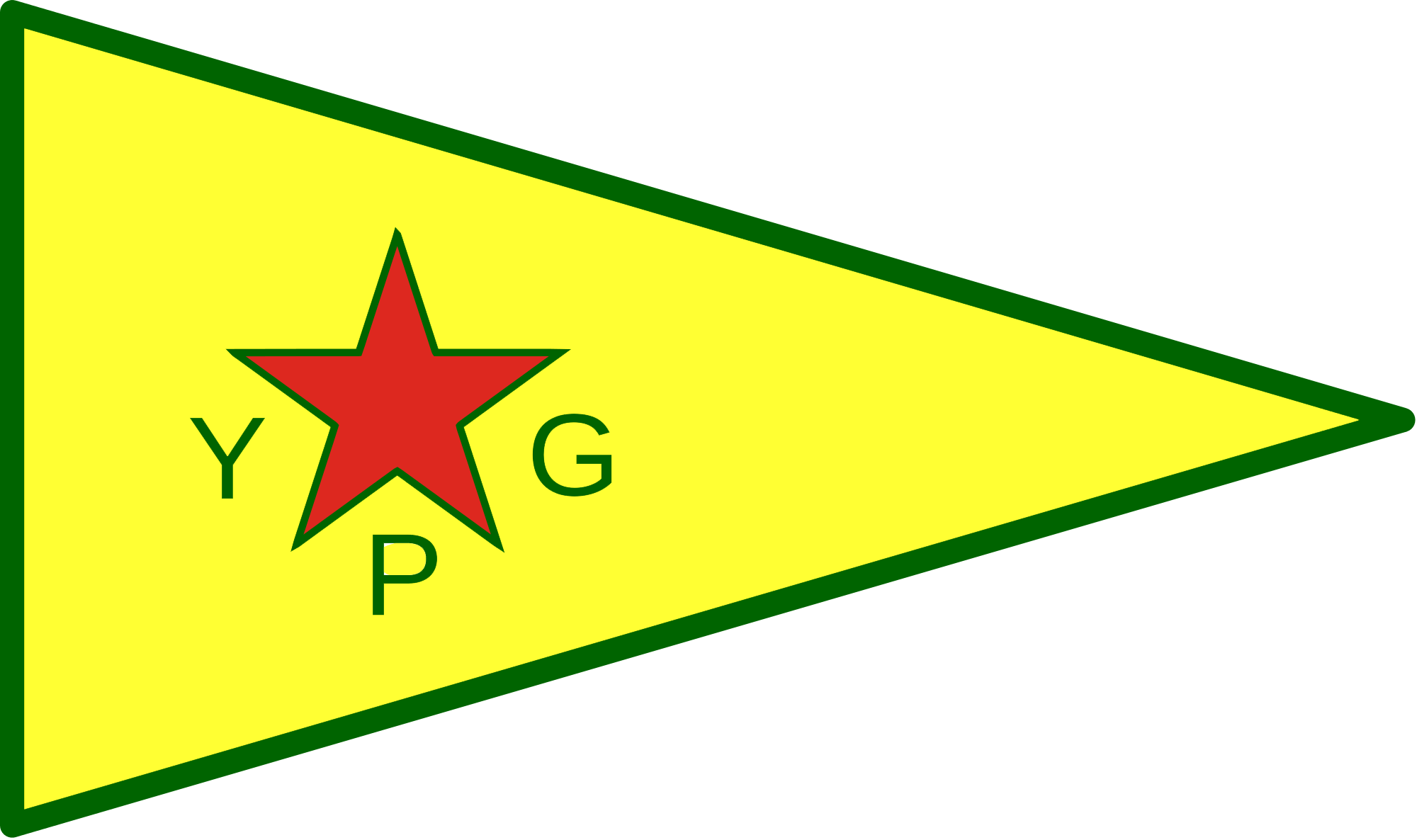 YPG Flag